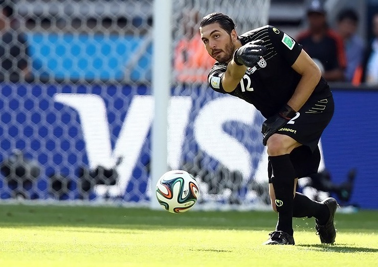 Iran and Argentina national football teams match, 2014 FIFA World Cup Group F